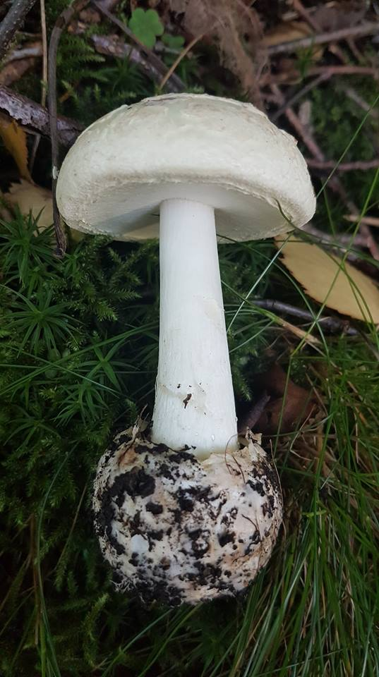 Amanita citrina with its veil still connected to the cap. Clearly visible volva